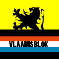 Flag used by the now-defunct political party Vlaams Blok in Belgium. Seen; [1], [2]